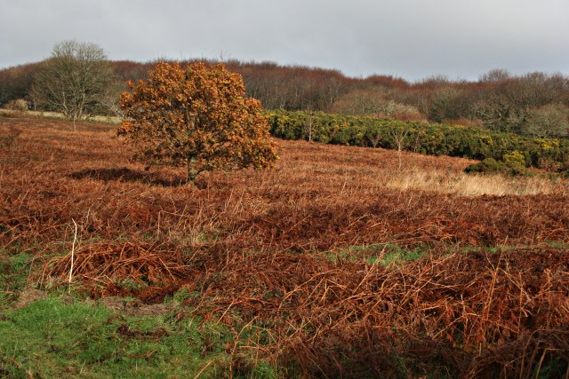 Viverdon Down This is wintertime heathland with the rust colour of the dead bracken leaves and the gorse in the distance not afraid to show some yellow flowers.